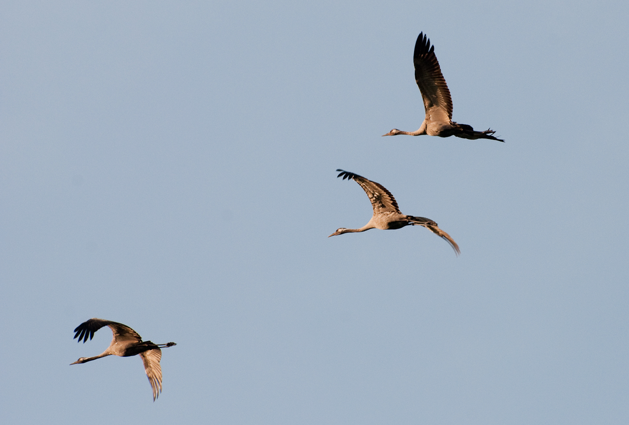 Серый журавль в полете